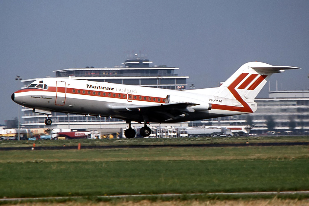 Schiphol